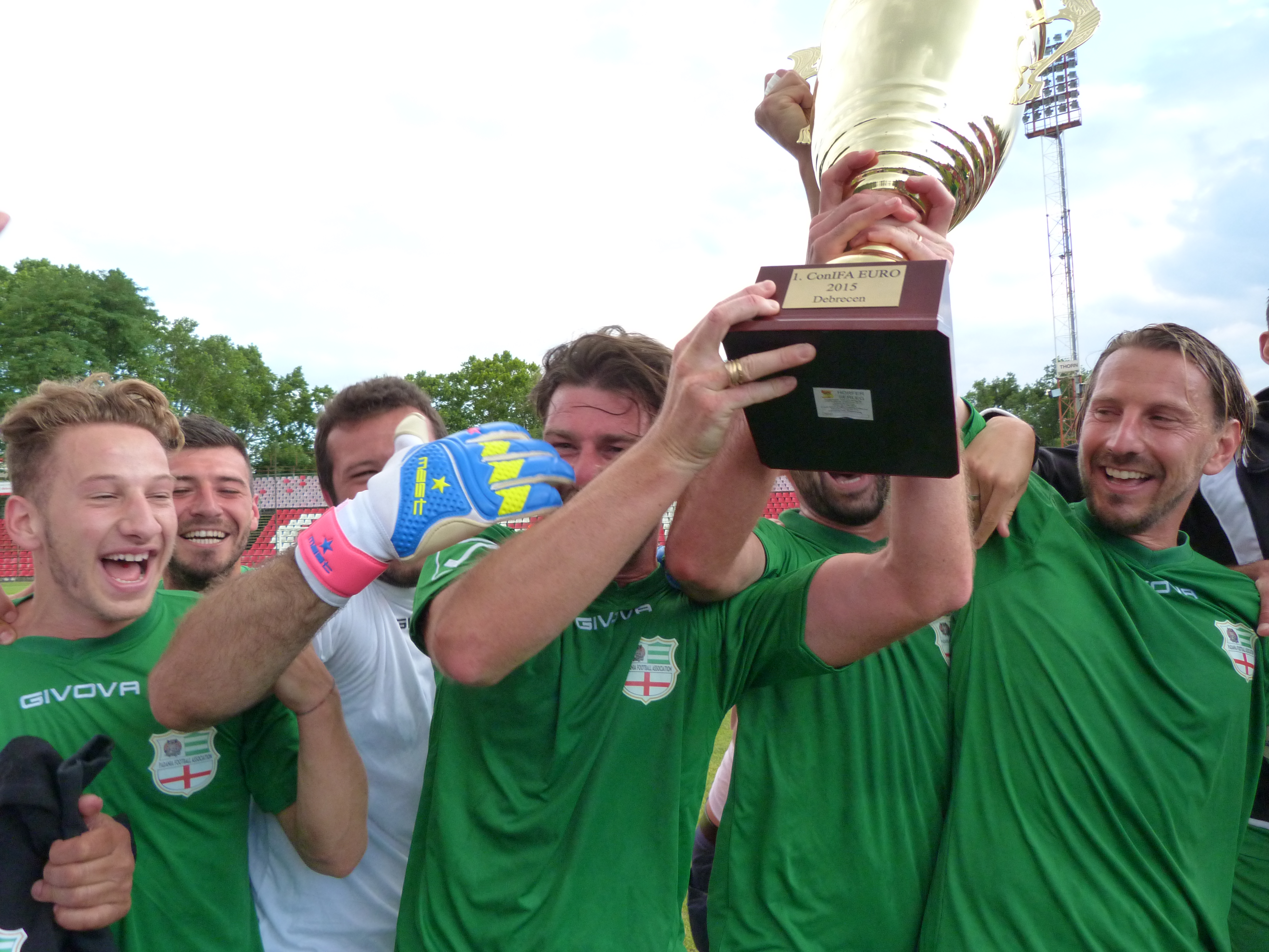 Live in Debrecen, Hungary. 21st of June, 2015. Europe Cup - Confederation of Independent Football Associations, ConIFA. Padania - County of Nice. ©© Derzsi Elekes Andor, Budapest, 2015, Published in the Metapolisz DVD line. You are authorised to use this photo under Creative Commons – even for commercial, for profit purposes. The photo must be attributed to Derzsi Elekes Andor. All of the photos and vids in the Metapolisz DVD line are under Creative Commons and can be used even for commercial – for profit – purposes. Recommended Citation Derzsi Elekes Andor: Metapolisz DVD line